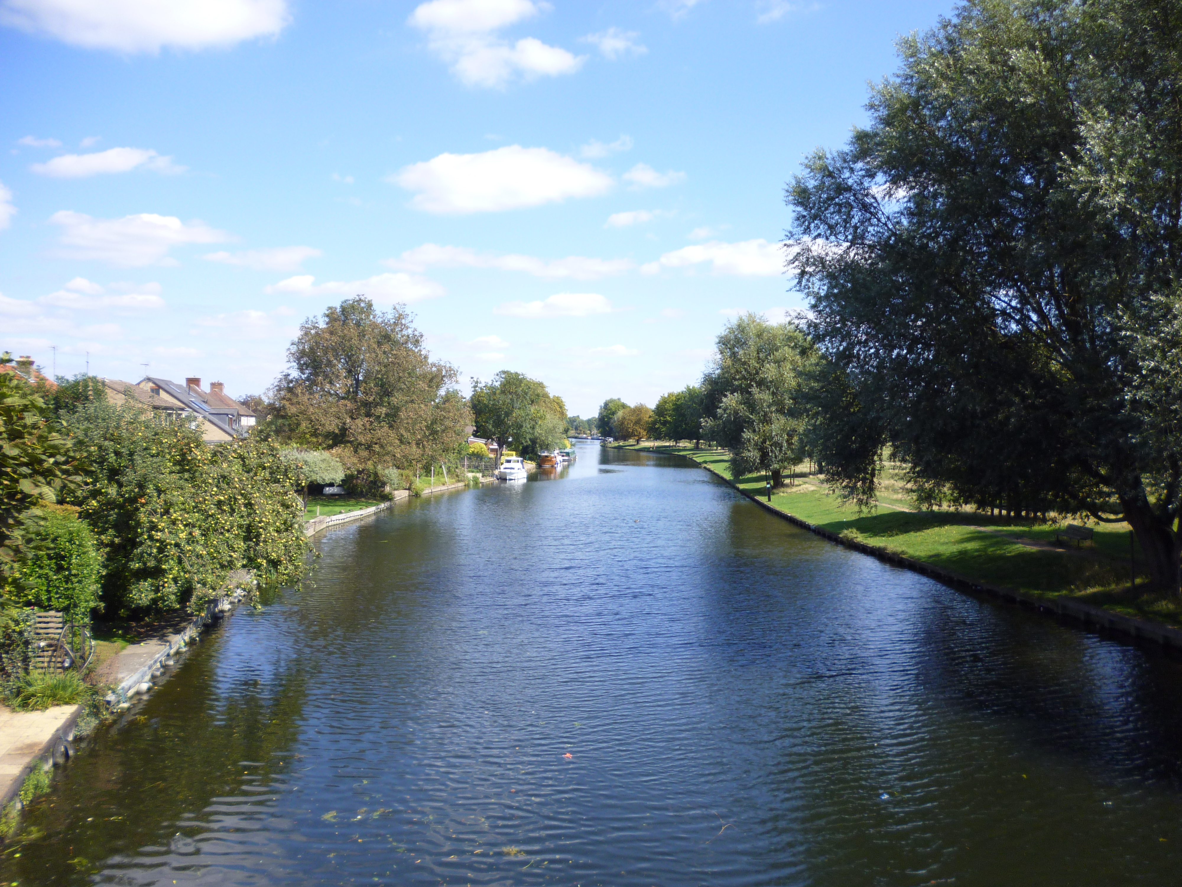 Taken in Cambridge, UK with camera: Panasonic DMC-S1